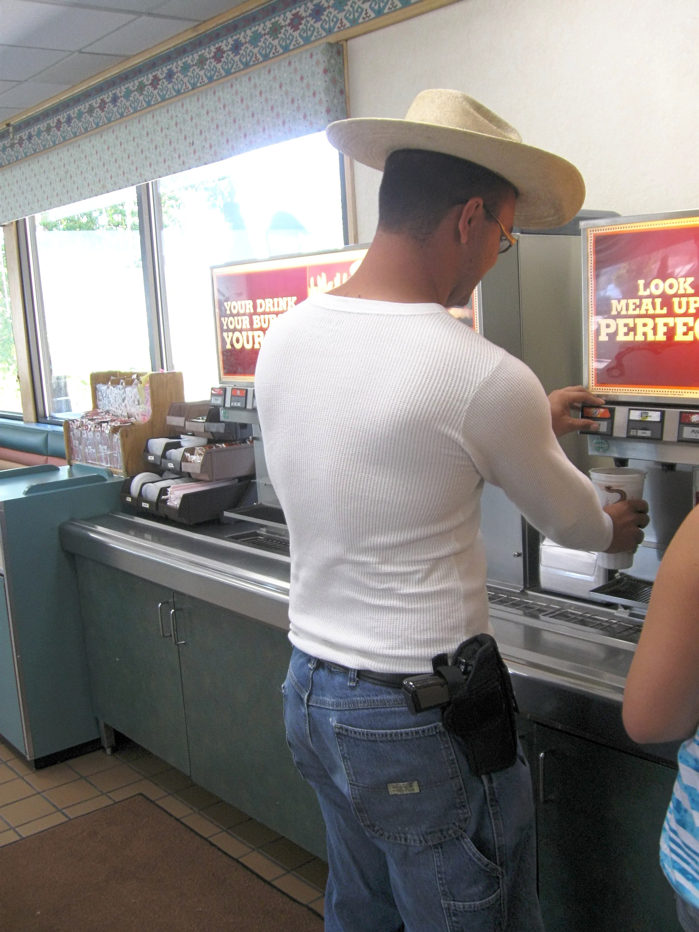 This man is openly carrying a loaded 9mm handgun in a Burger King restaurant in Eagle, Colorado. Photo taken on September 24, 2011.